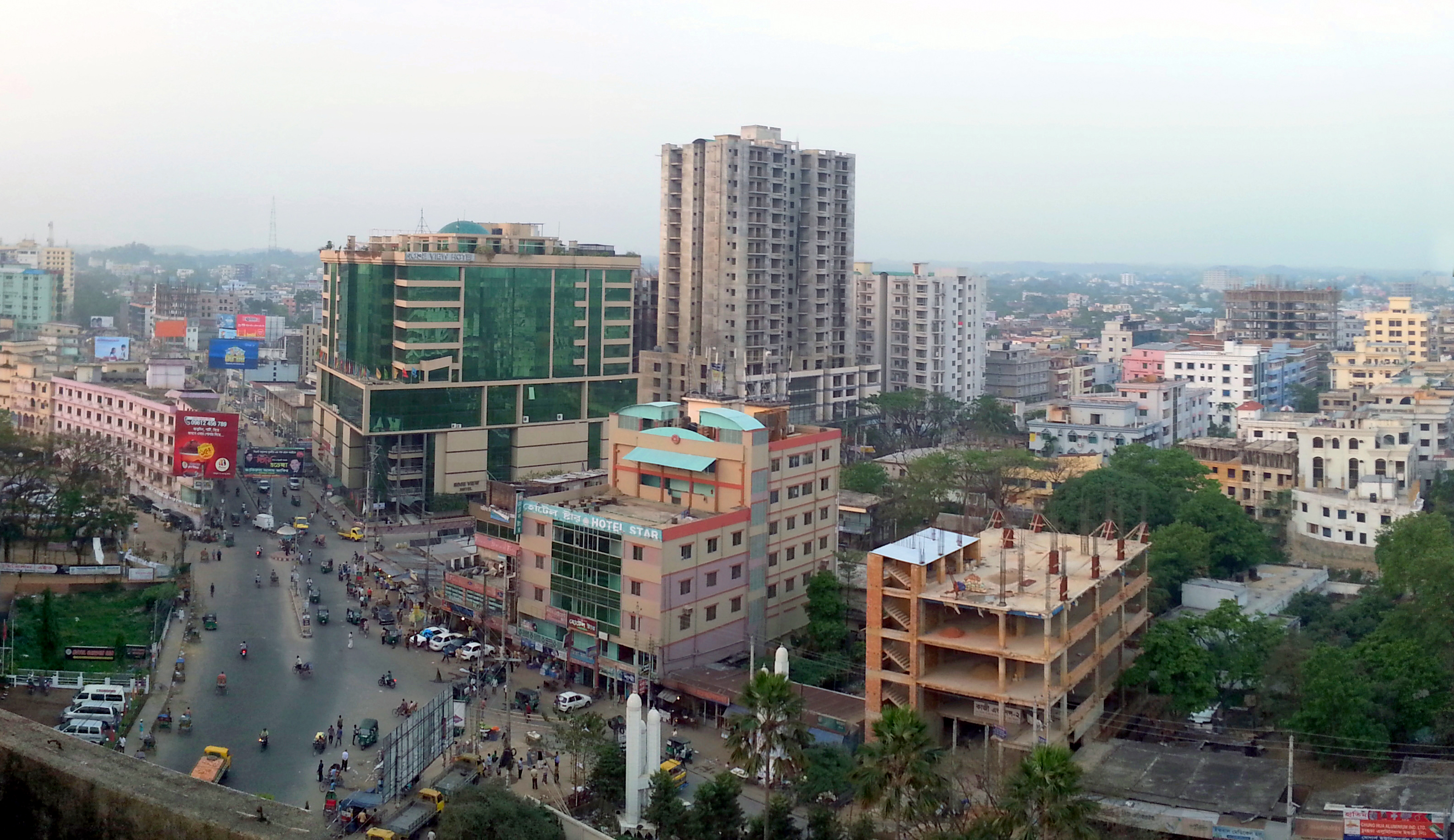 Sylhet city